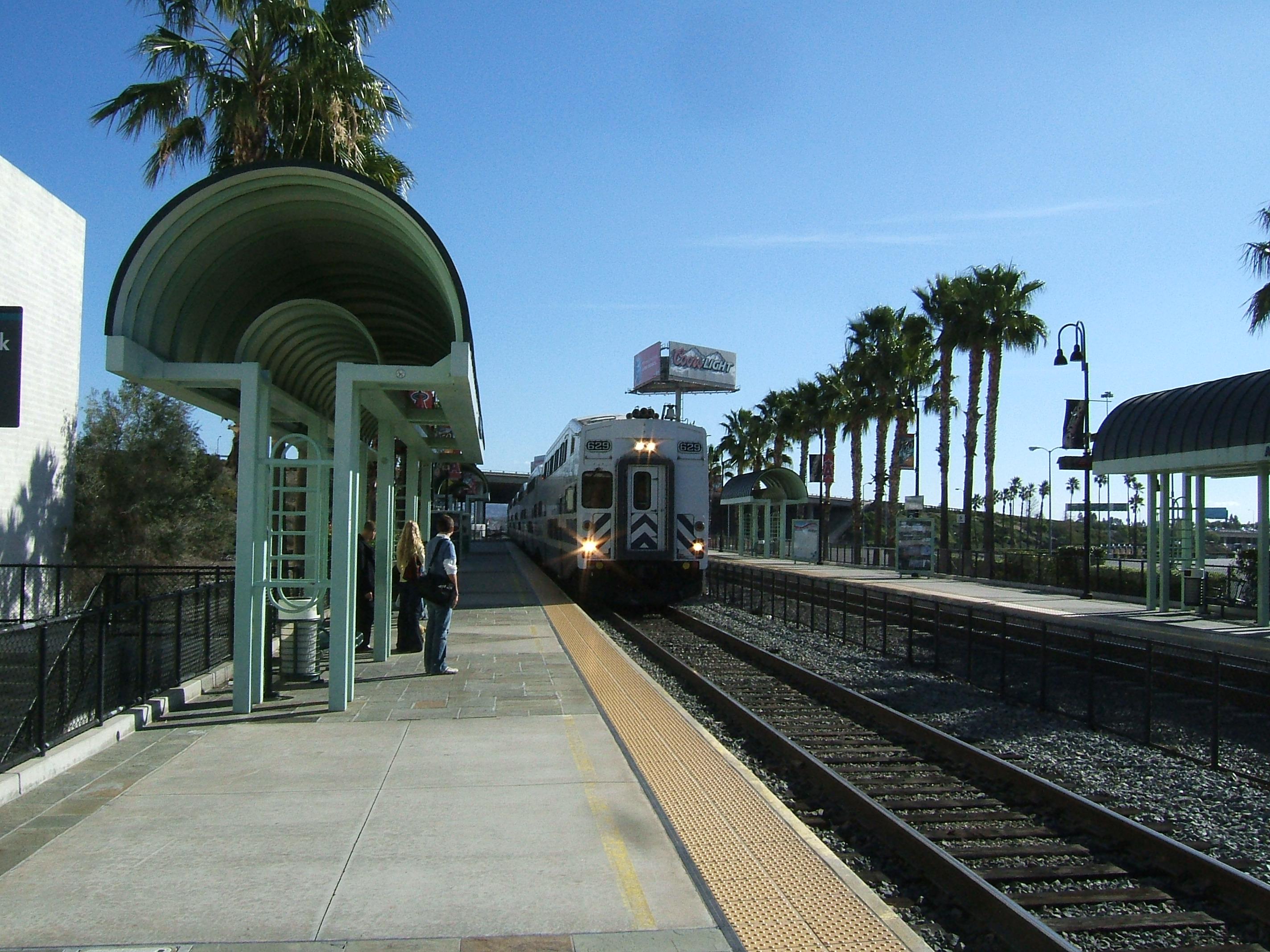 The Metrolink/Amtrak station in Anaheim, California.